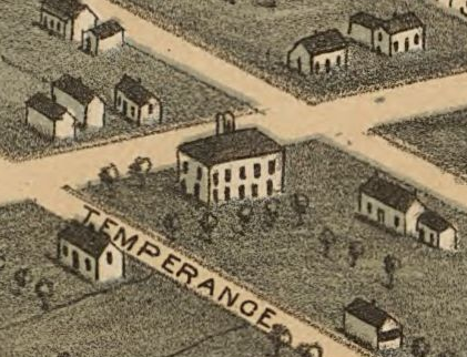 The intersection of Clinch and Temperance streets in Knoxville, Tennessee, United States, in 1871. Temperance Hall, a popular gathering place, is at the center. This area was near the modern intersection of Hall of Fame Drive and Howard Baker Avenue, in the vicinity of the Civic Coliseum.